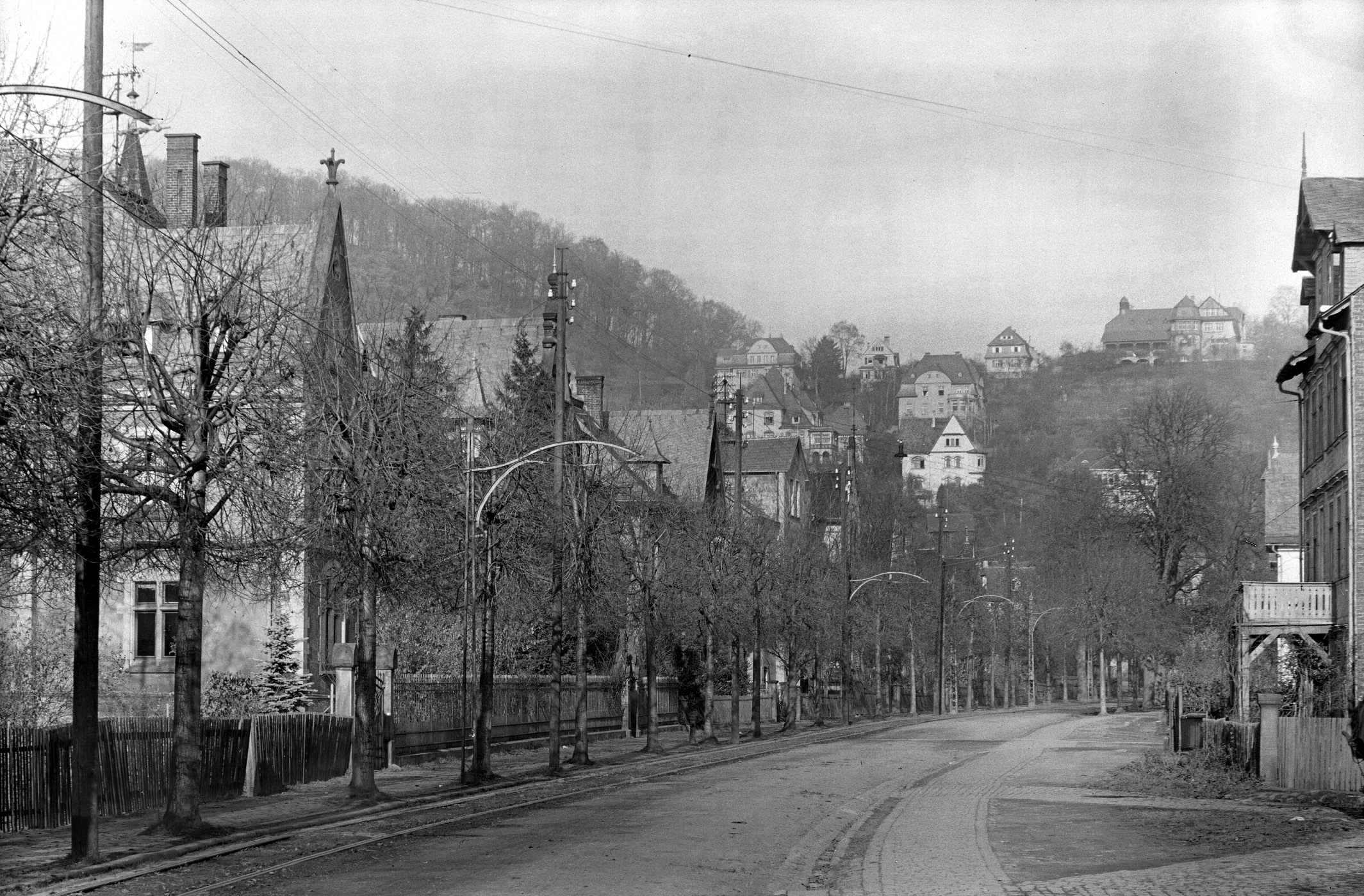 Marburg: Schwanallee north of the Schwanhof from S with the tramway track